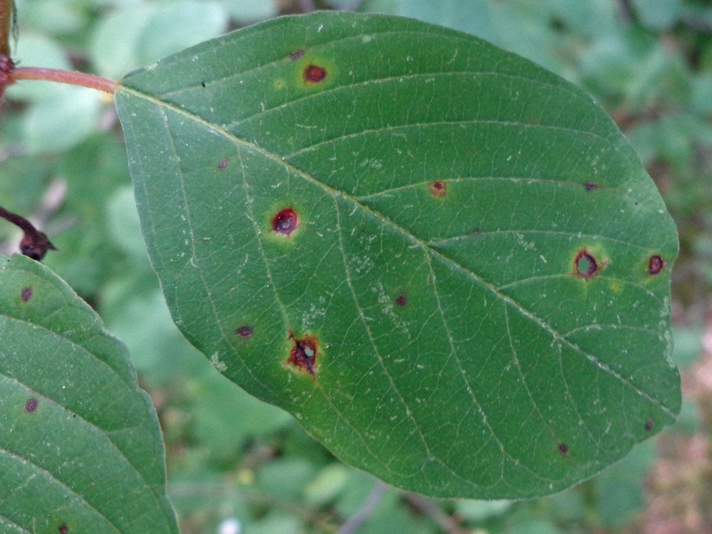 Blumeriella jaapii. Found in Rīga town, Latvia